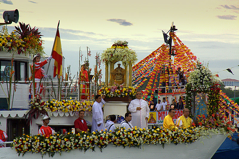 Sr. Sto Nino Annual Fiesta Sinulog Festival 2009 Cebu City, Philippines For more pictures click here Sinulog 2009